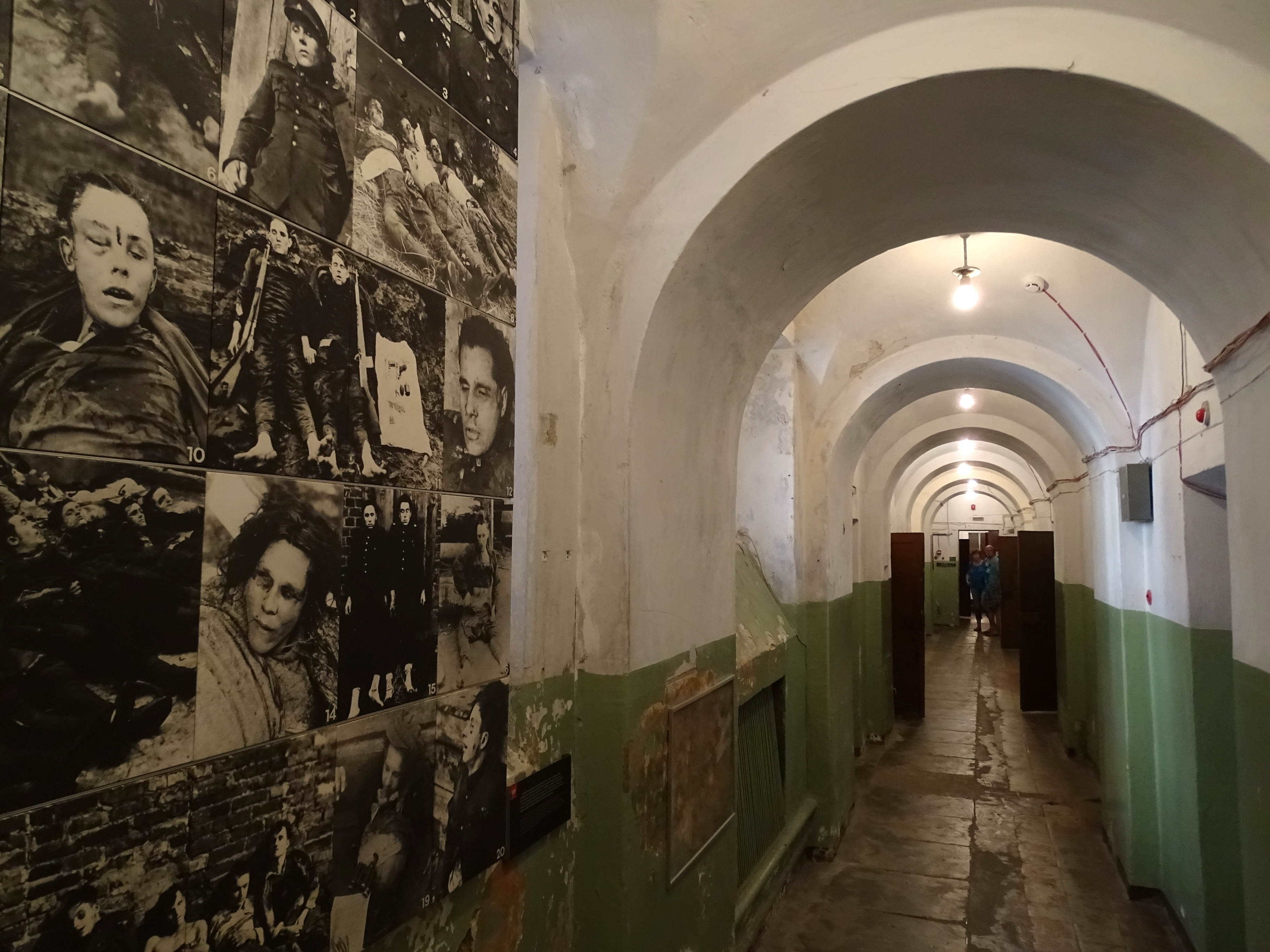 Corridor with Display of Partisans Killed by Soviet Forces - Museum of Genocide Victims - Vilnius - Lithuania